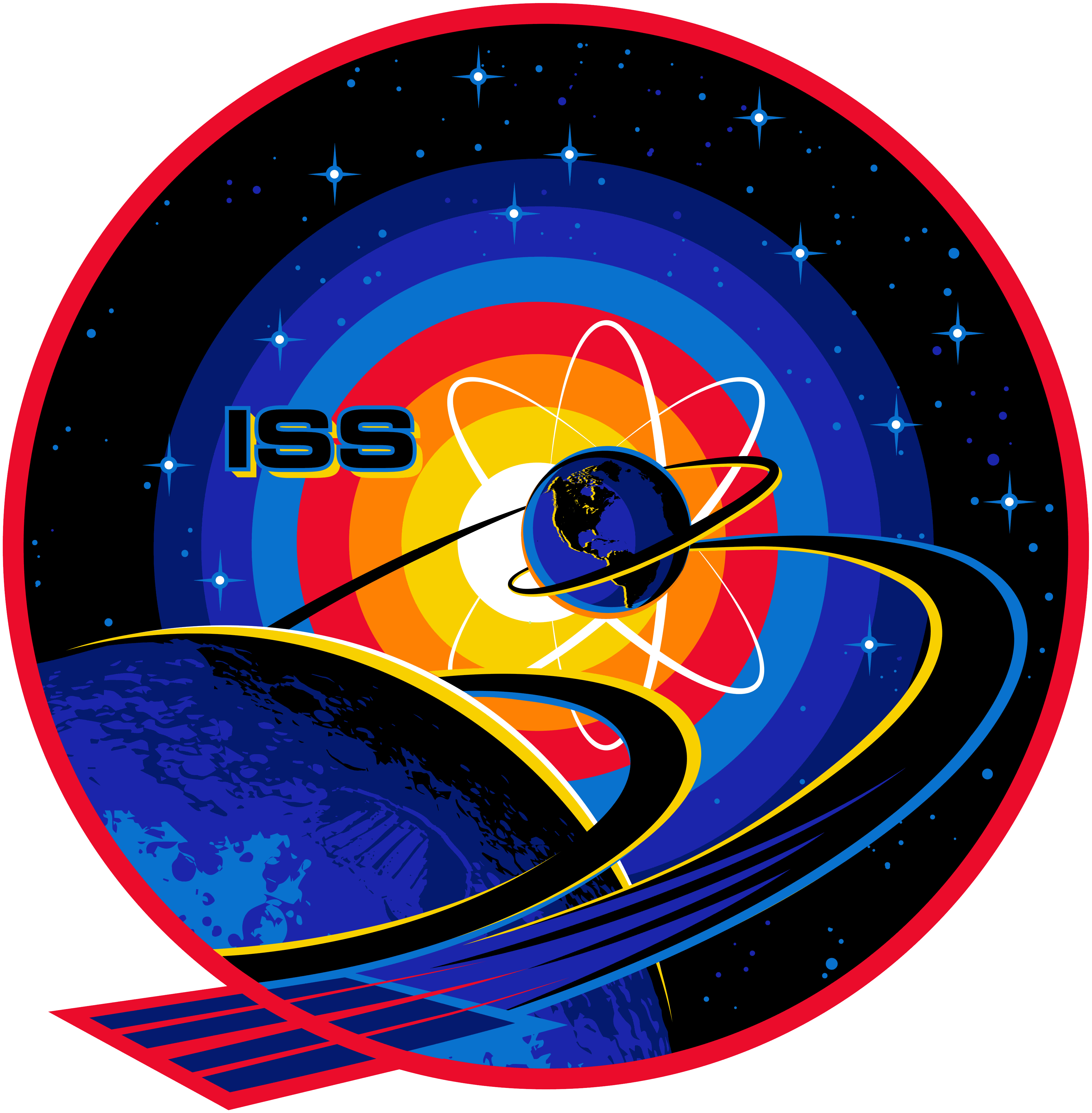 International Space Station (ISS) Expedition 63 mission insignia, incorporating a multitude of elements, such as a stylized 63 in the orbit traces, a boot print on the lunar surface. The Expedition 63 patch represents an intersection of the past and the beginning of a new dawn in human spaceflight as we continue to inhabit the International Space Station (ISS), aim towards returning to the moon and plan for the journey to Mars. Thirteen illuminated stars along the top of the patch commemorate the Apollo 13 celebrating its 50th anniversary during Expedition 63. The swoosh in the shape of the number "63" orbiting around the earth and moon honors the Apollo program and the future missions to go beyond low earth orbit. The atom, shown overlaid on a vibrant sunrise, is the Expedition 63 crew's call sign symbolizing the energy to revolve, or orbit around a nucleus or in their case, the Earth. The international crew depicts the importance of the collaboration in preserving the ISS as a microgravity and space environment research laboratory.